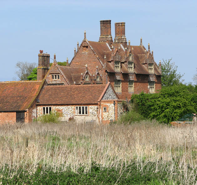 Little Hautbois Hall Viewed from the public footpath which here runs parallel with the River Bure. Little Hautbois Hall was built in the reign of King Edward VI in 1553, presumably erected on the site of an older manor house. The Hall has been converted to a private residence. The River Bure rises near Melton Constable, 18 kilometres miles upstream of Aylsham, which was the original head of navigation. It flows into the North Sea by Breydon Water near Gorleston, further to the southeast. A special type of trading wherry, called the Bure wherry, was used on this river.